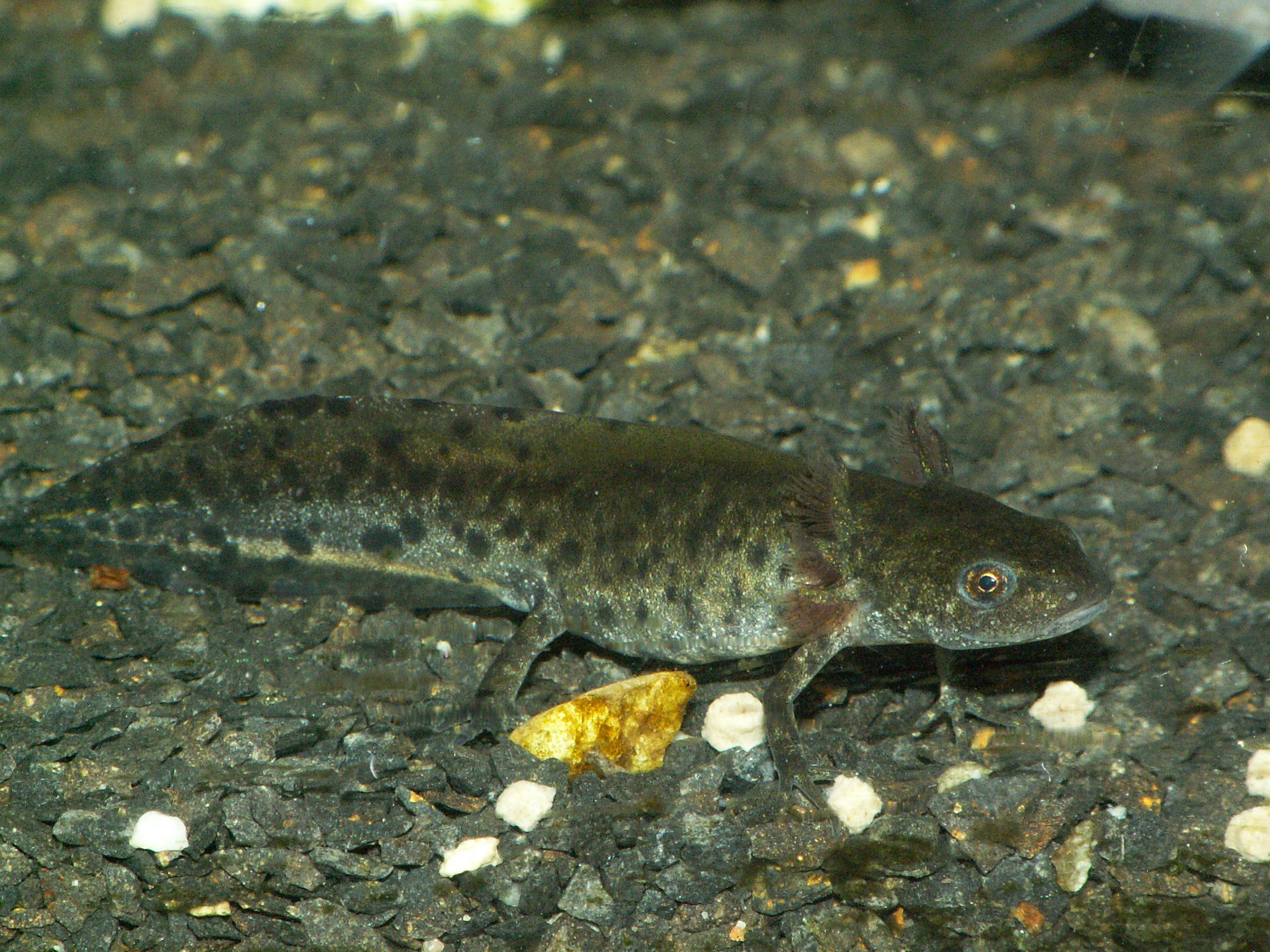 Latest stage of larval Triturus cristatus, the Netherlands